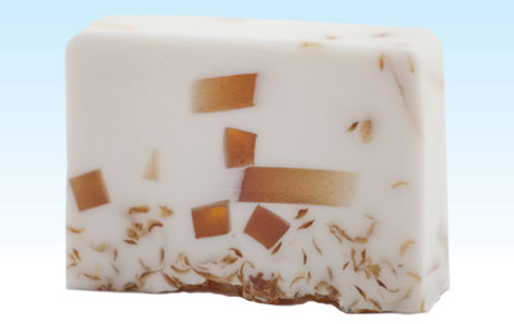 Soap du Jour 100% pure vegetable glycerin soap